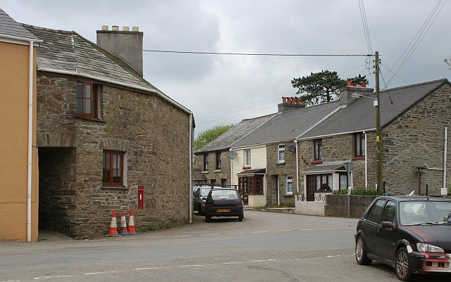 Pengover Green. This is a hamlet of a few terraced houses and a couple of farms to the east of Liskeard.